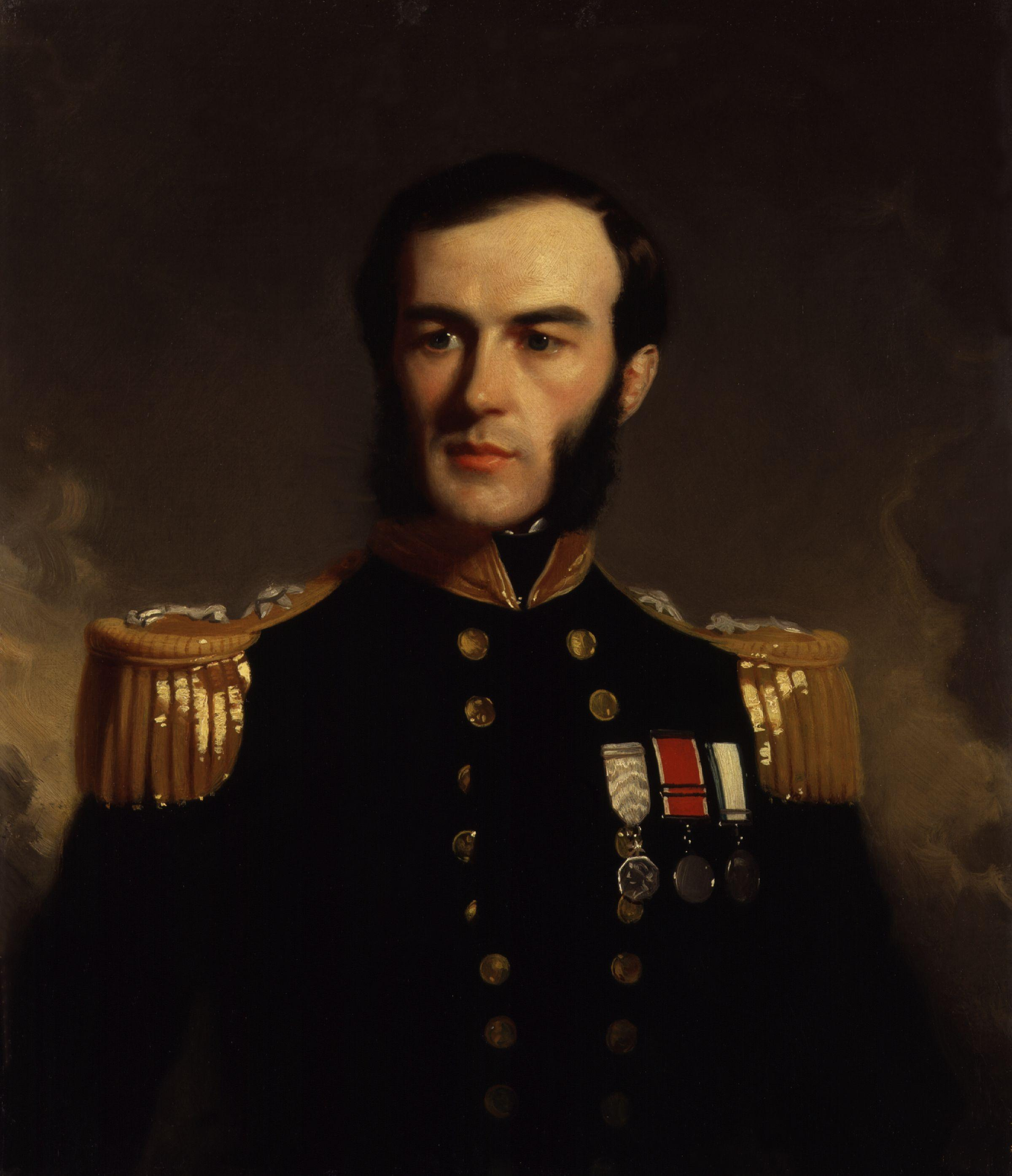 Sir Edward Augustus Inglefield, by Stephen Pearce (died 1904). All images in this batch have been confirmed as author died before 1939 according to the official death date listed by the NPG.